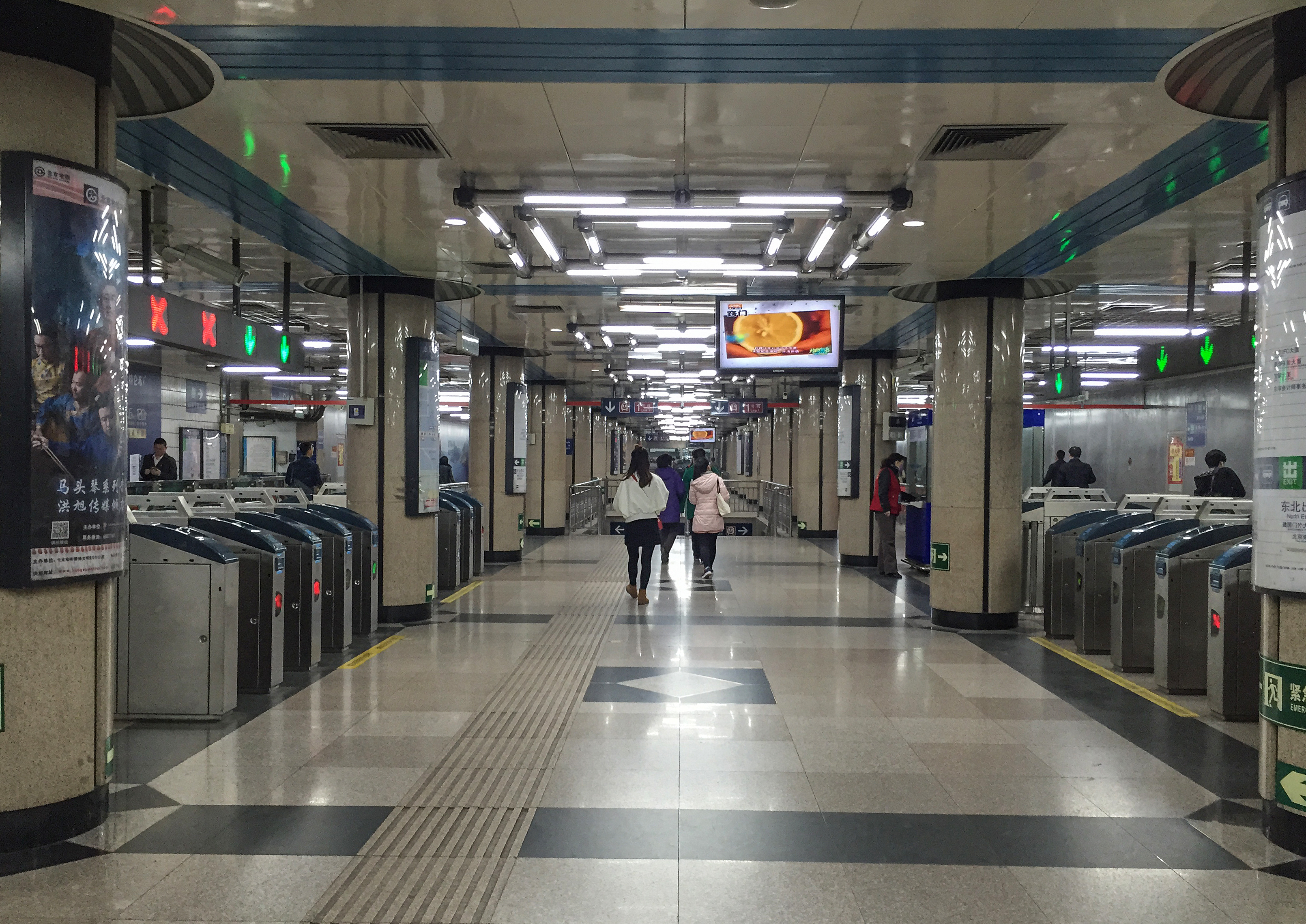 Future interchange station for Line 17.